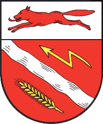 Coat of Arms of Landesbergen